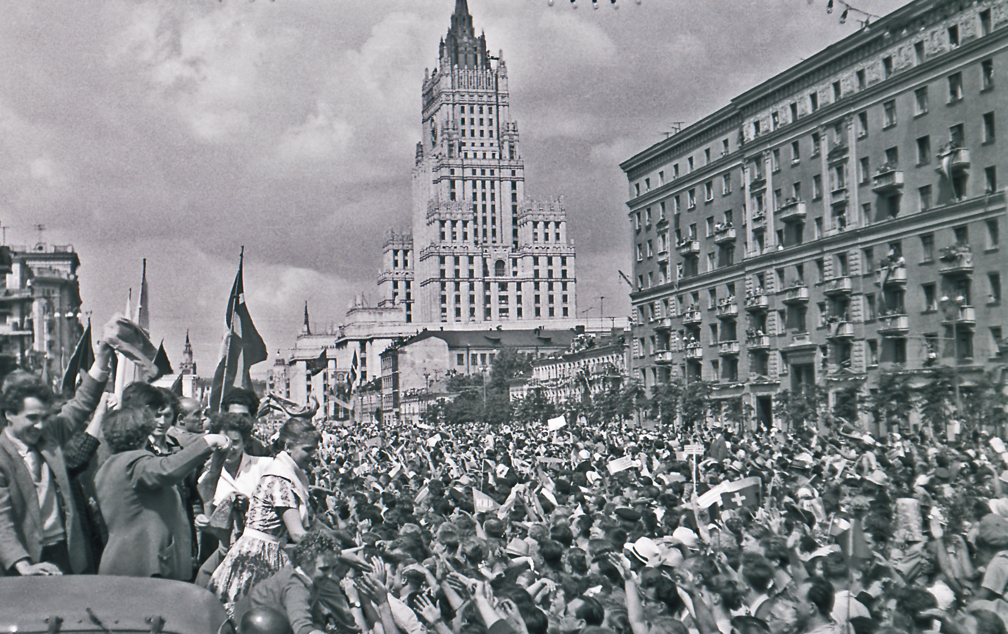 6th World Festival of Youth and Students (1957). Opening day: Drive through Moscow to the Lenin-Stadium. In the background - main building of Ministry of Foreign Affairs of USSR. - You may want to have a look at my website (in German)